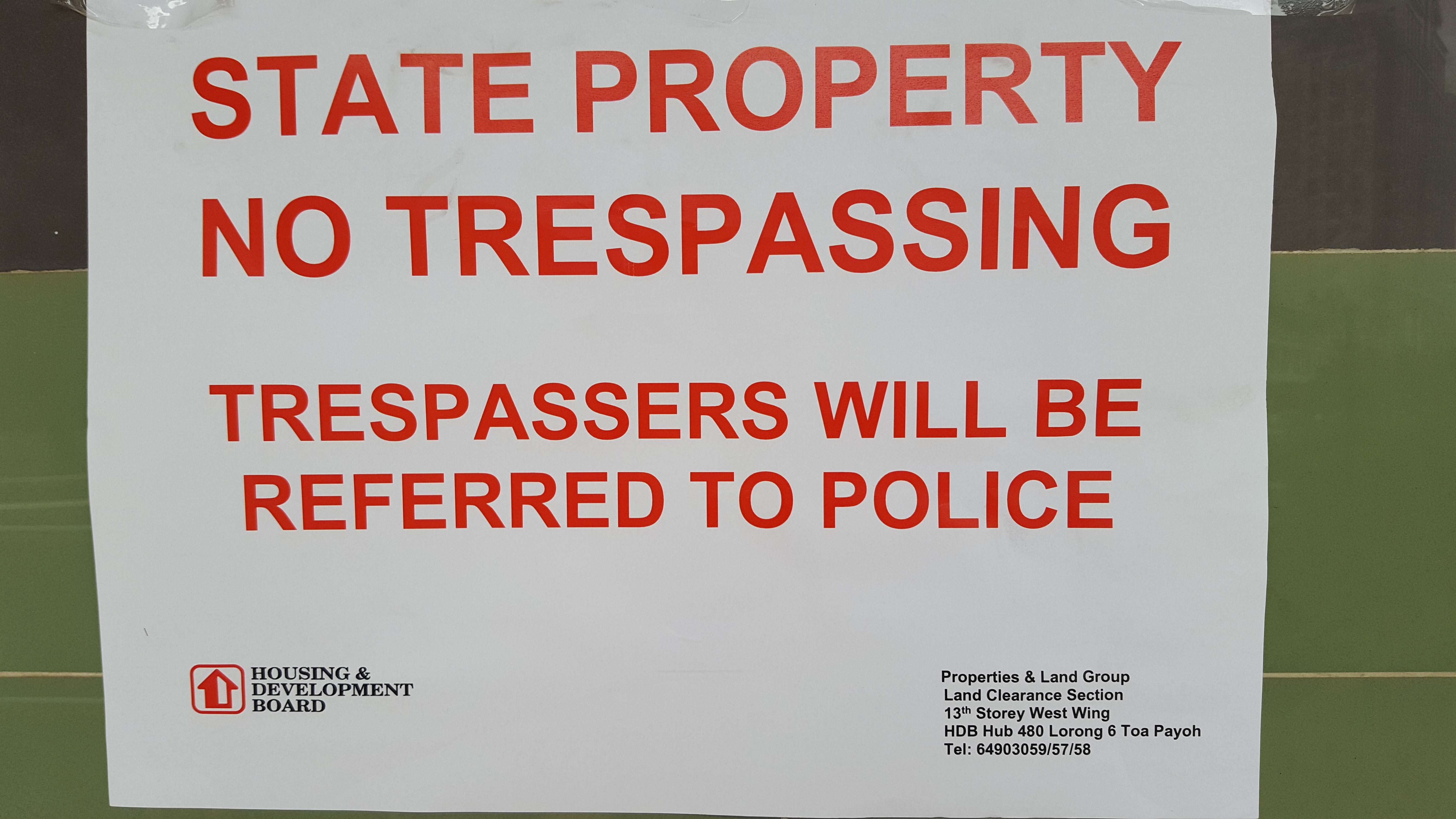 Since April, HDB has barricade the entire Rochor Center (including the last building Block 1) and put up notices warning the public to not trespass. This is usually the signal of the demolition coming soon.